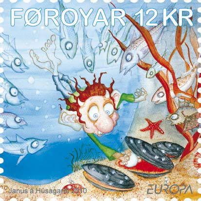 Stamps FO 689 of the Faroe Islands: Europa 2010 - Childrens books